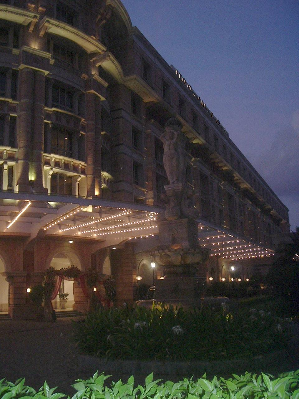 This is a stunningly beautiful hotel, with Indian character. I went for a walk around tonight, but this is the view my tired eyes saw last night, minus the dusky sky since it was 11:30 last night.